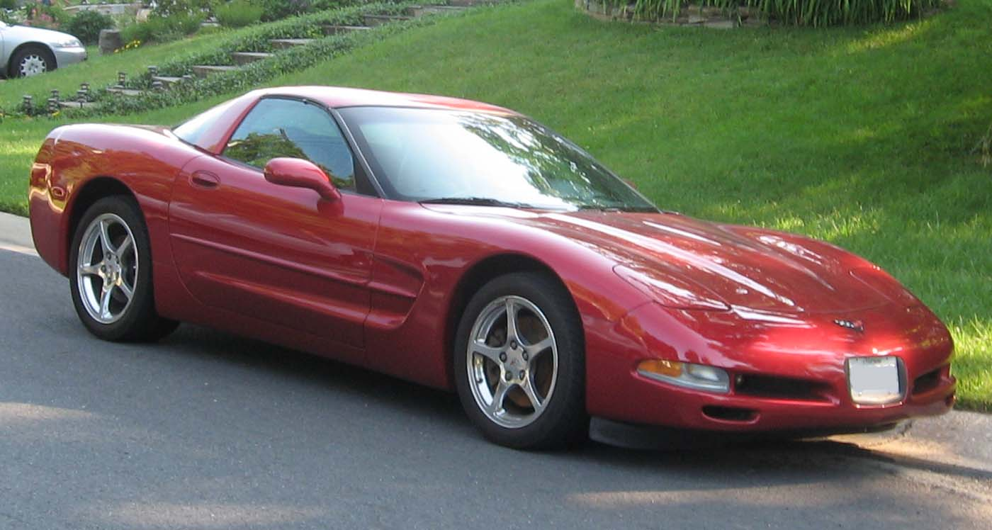 Chevrolet Corvette photographed in USA.